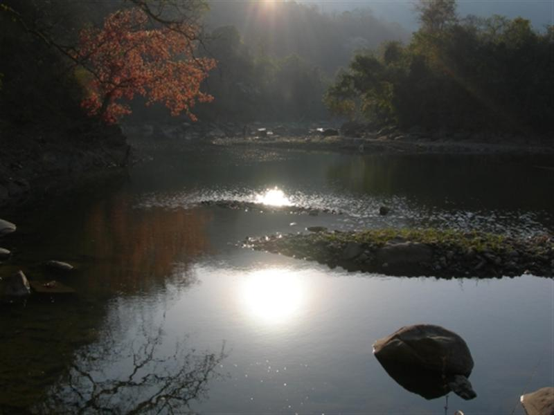 Barak River in its upper course in Manipur